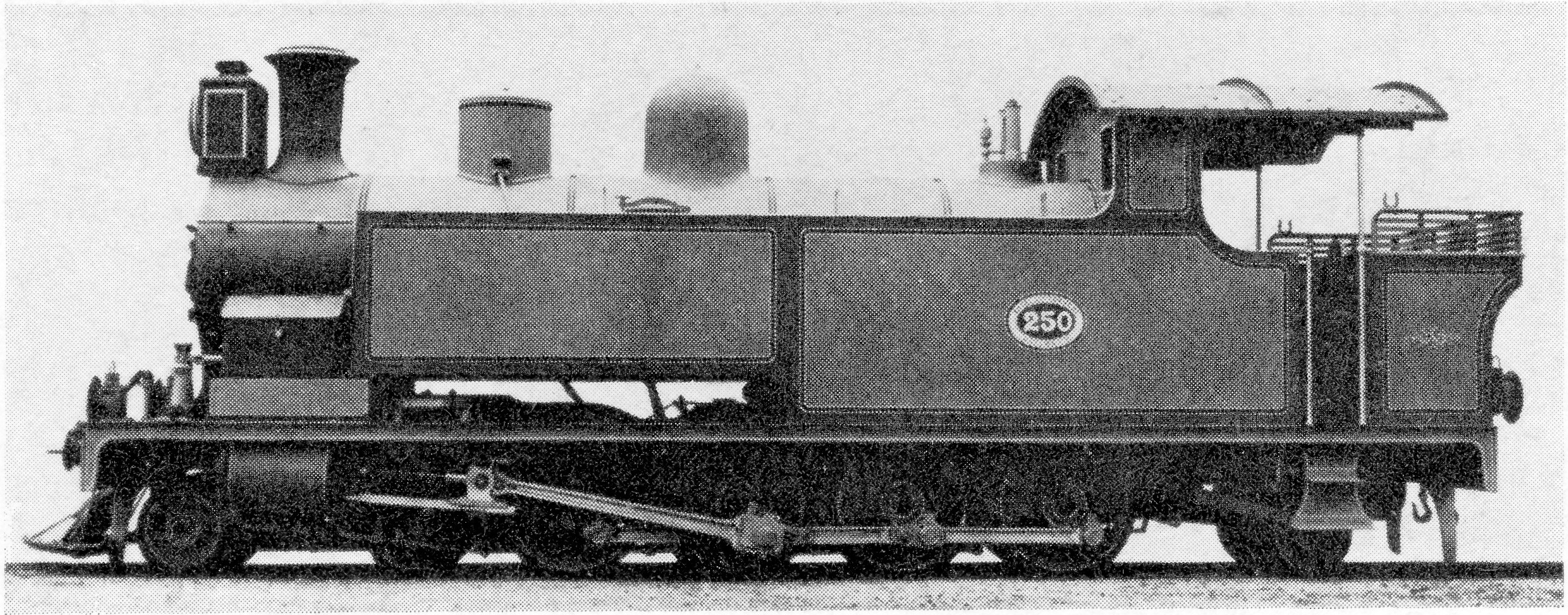 SAR Class G 197 (4-8-2T), ex NGR Dubs B 250